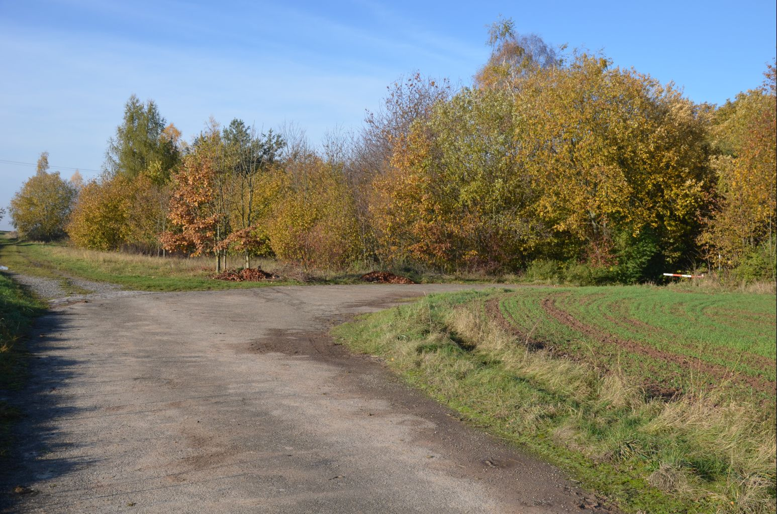 access road to former barracks of US air defense missile site Kleingartach from local road Niederhofen–Haberschlacht